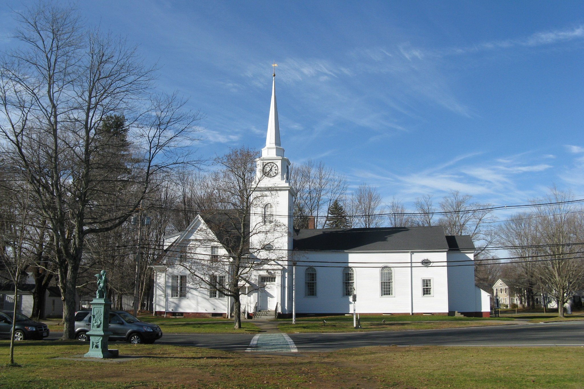 First Congregational Church, West Brookfield Massachusetts